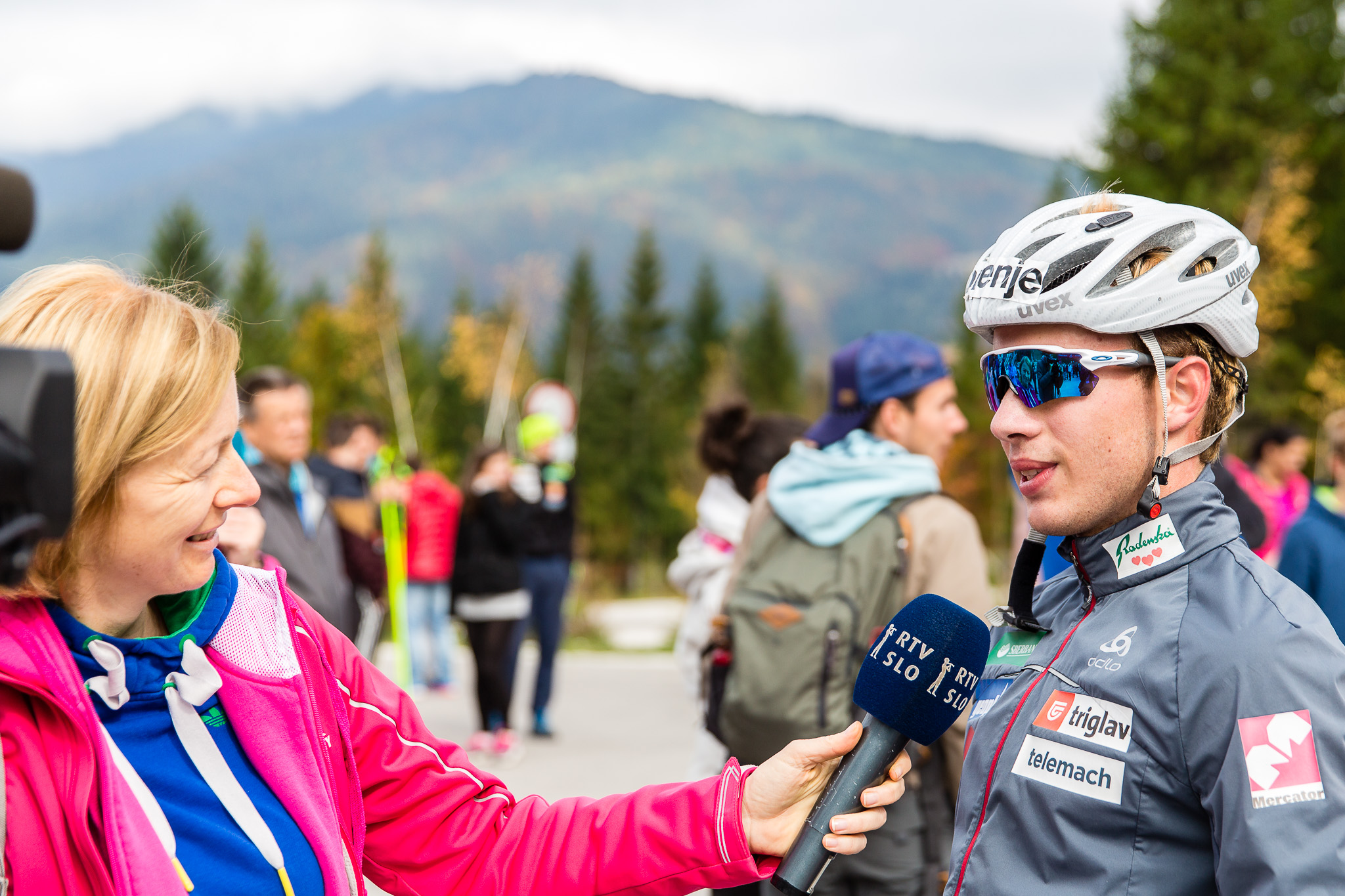 Summer Grand Prix Competition Planica 2017